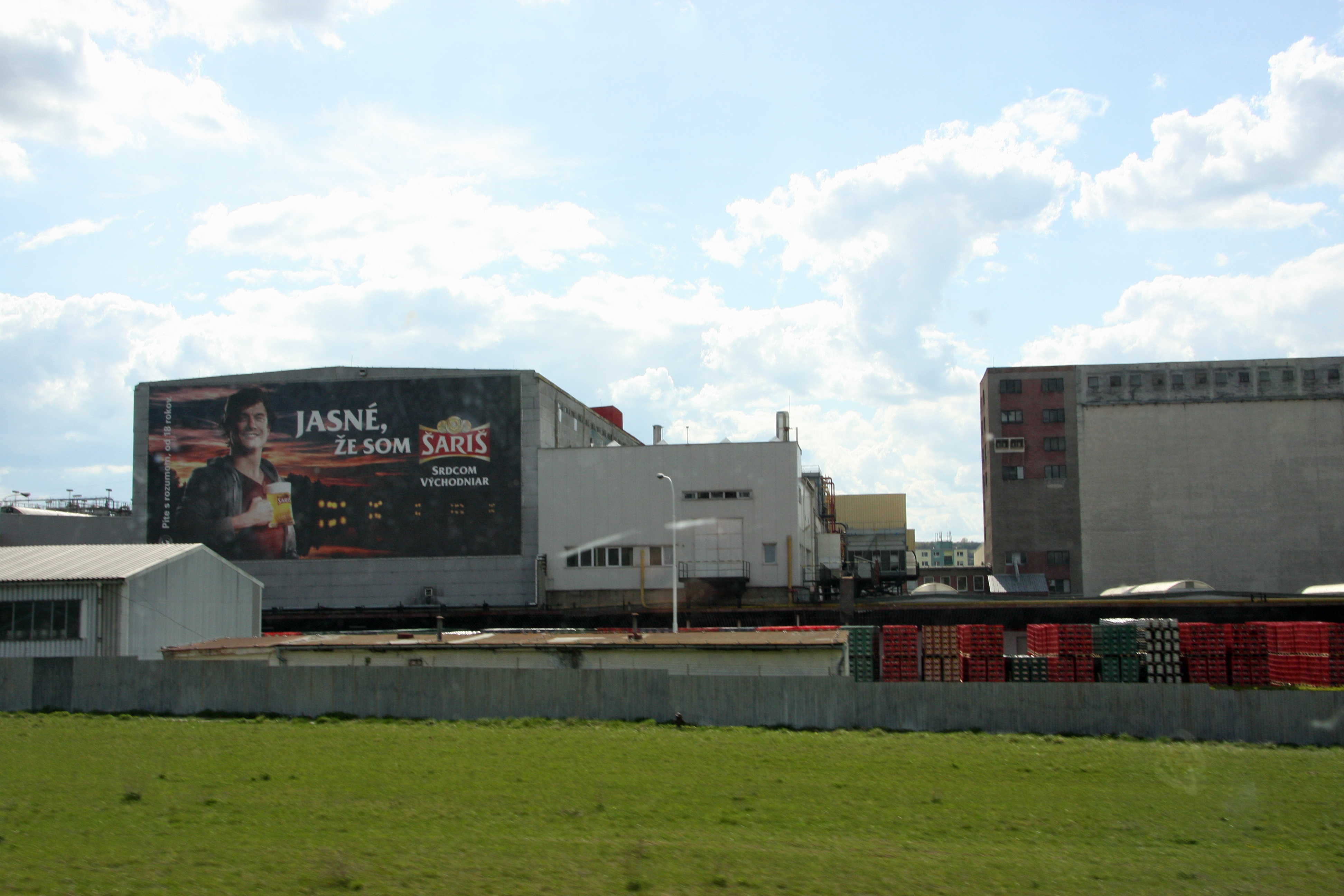 Šariš Brewery in Veľký Šariš near Prešov, Slovakia